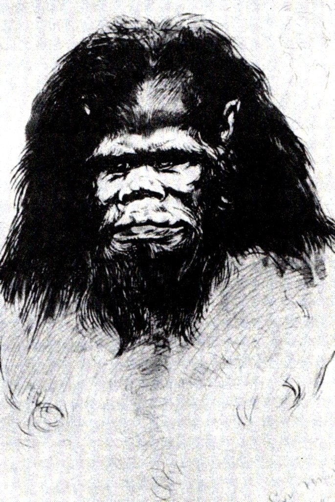 An old, grotesque reconstruction of Pithecanthropus, called "„Pithecanthropus europaeus (alalus)", preparatory study by Gabriel von Max. The resulting oil painting [1] was a birthday present (1894) for Ernst Haeckel, who was an opponent of Rudolf Virchow